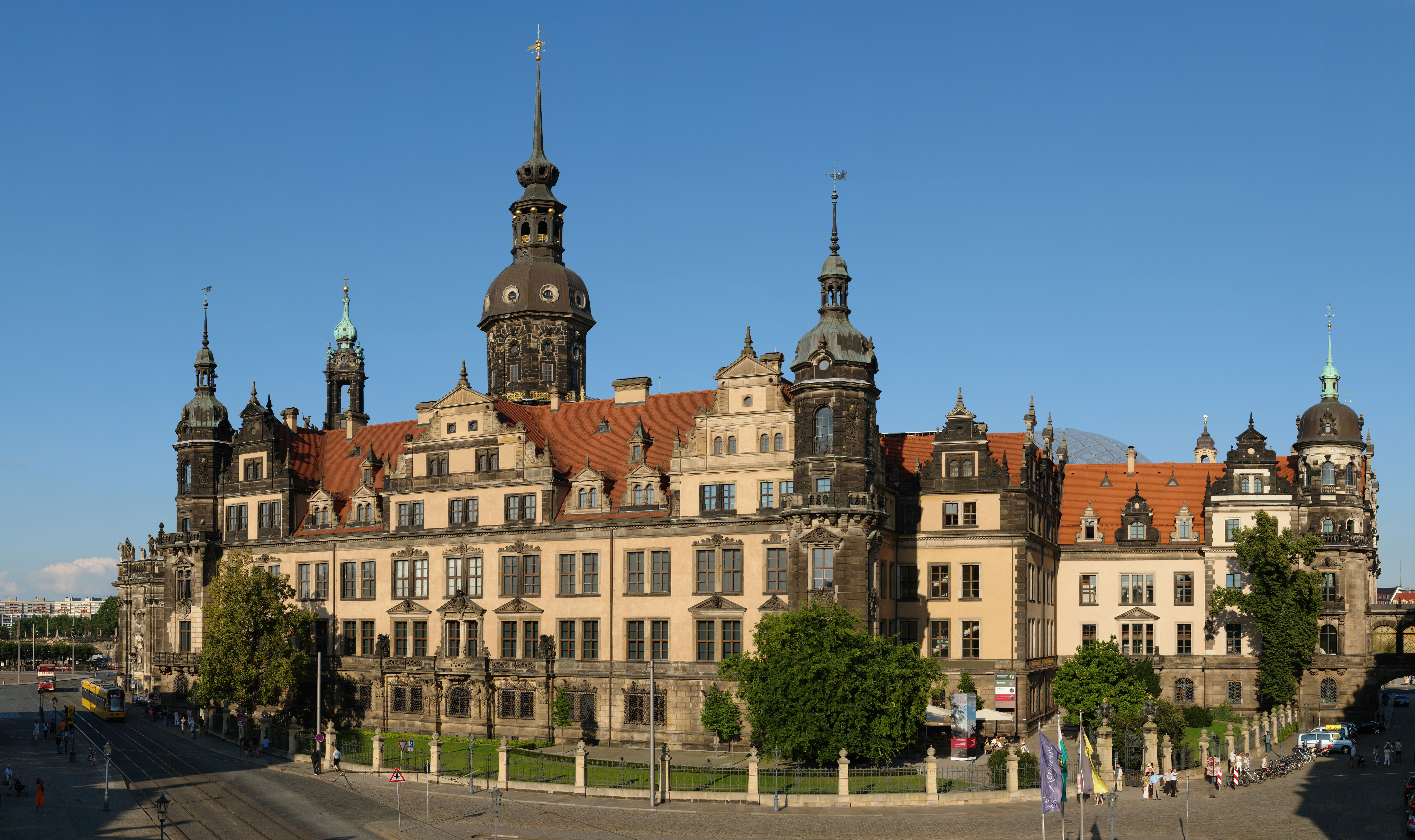 Dresden Castle viewed from Zwinger